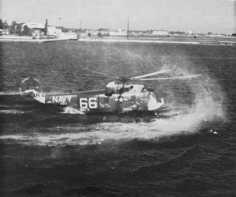 U.S. Navy cpt. Frossard of the NATC Patuxent River, Maryland (USA), making a water landing with a Sikorsky SH-3A Sea King (BuNo 148973) in 1964. The U.S. Naval Aviation News stated at that time that it was the 5000th water landing of this particular Sea King. The helicopter was assigned to helicopter fleet readiness training squadron HS-1 Seahorses of Carrier Anti-Submarine Air Group 50.